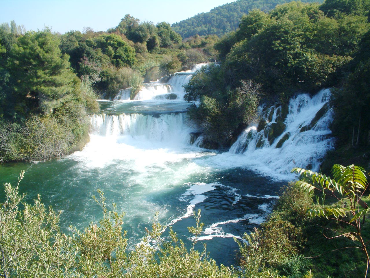 Skradinski buk waterfall on the Krka River, Krka National Park, Croatia. Author: K. Korlević (Korlevic)